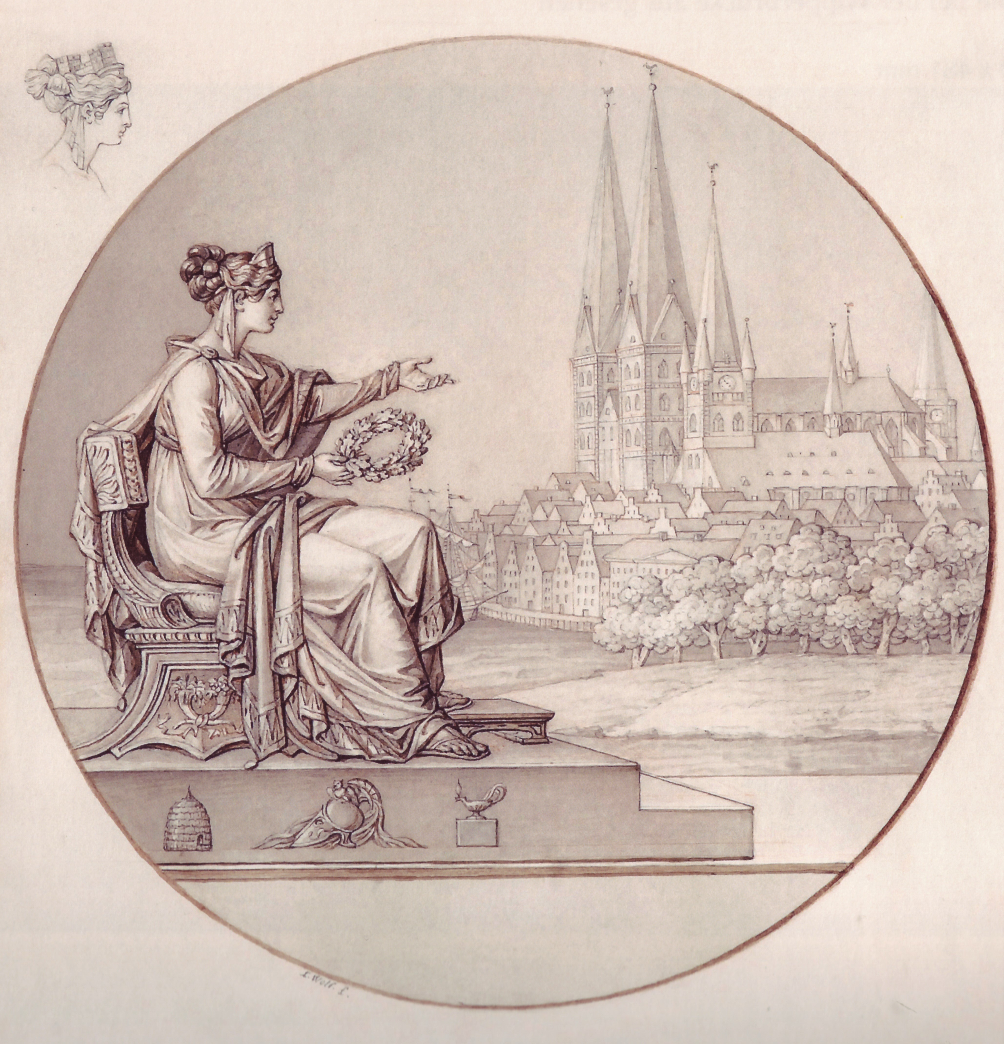 Original design for the honorary medal of the Gesellschaft zur Beförderung gemeinnütziger Tätigkeit zu Lübeck in Lübeck.